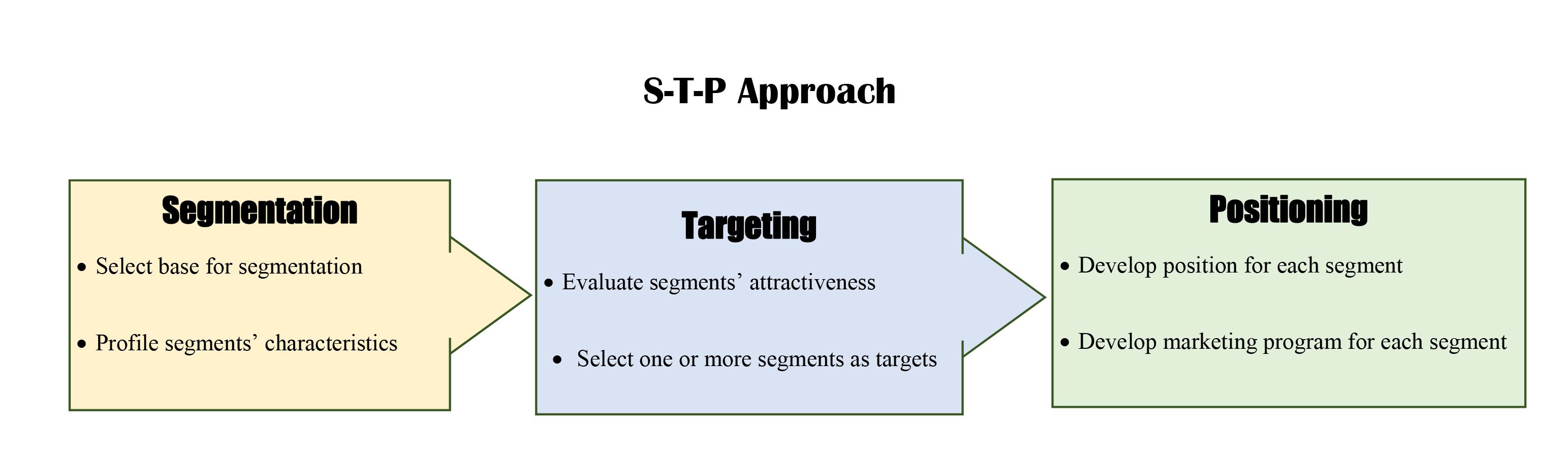 STP approach - as described on Wikipedia (Market Segmentation article) - designed and developed by contributor - based on page content and personal experience - 40 years in marketing': Definitely NOT scanned or sourced from any book